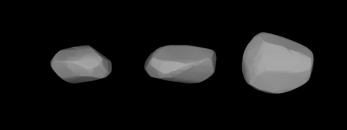 A three-dimensional model of 355 Gabriella that was computed using light curve inversion techniques.